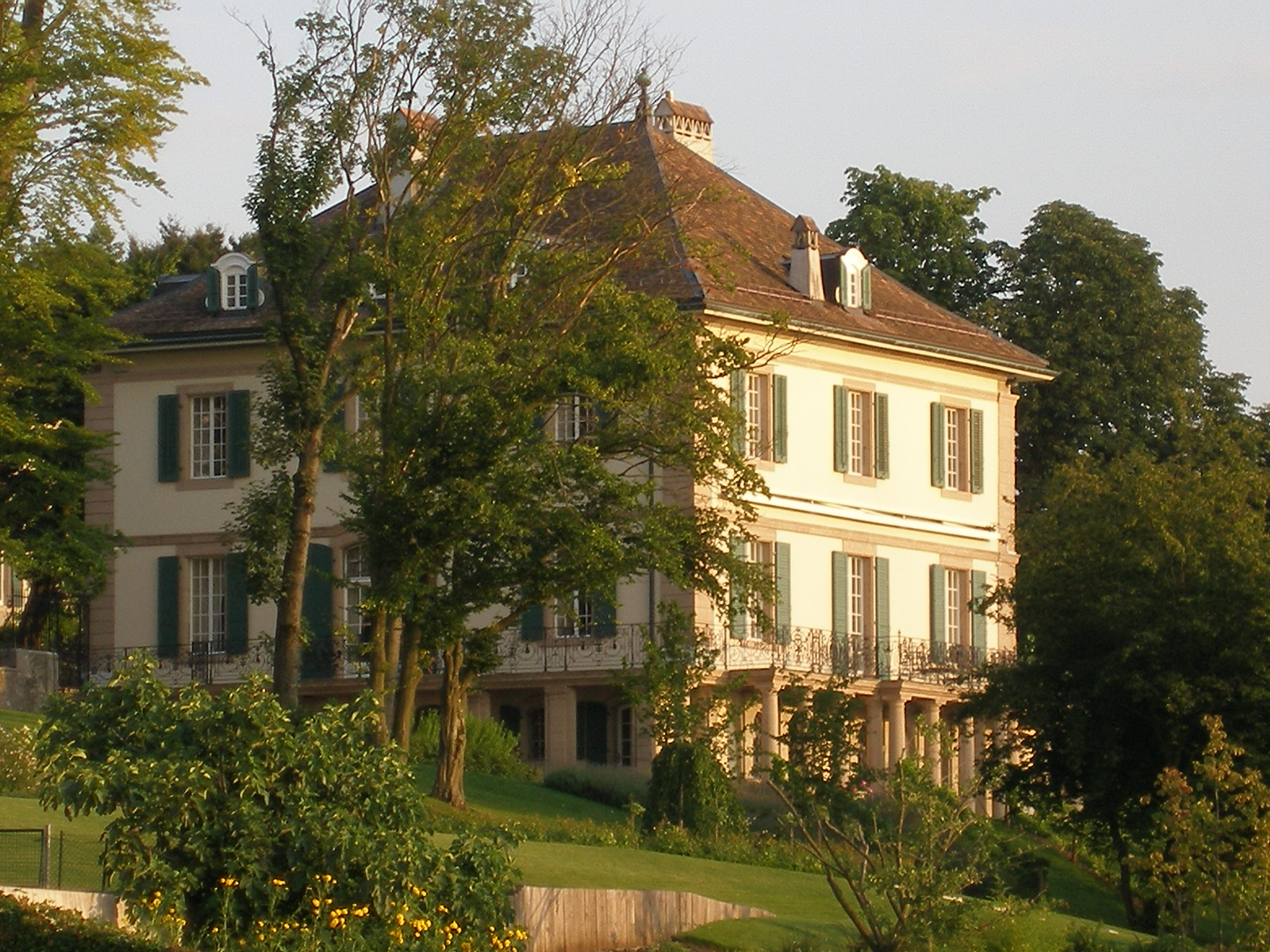 The Villa Diodati in Geneva, Switzerland 2008.07.27, view 5 out of 6